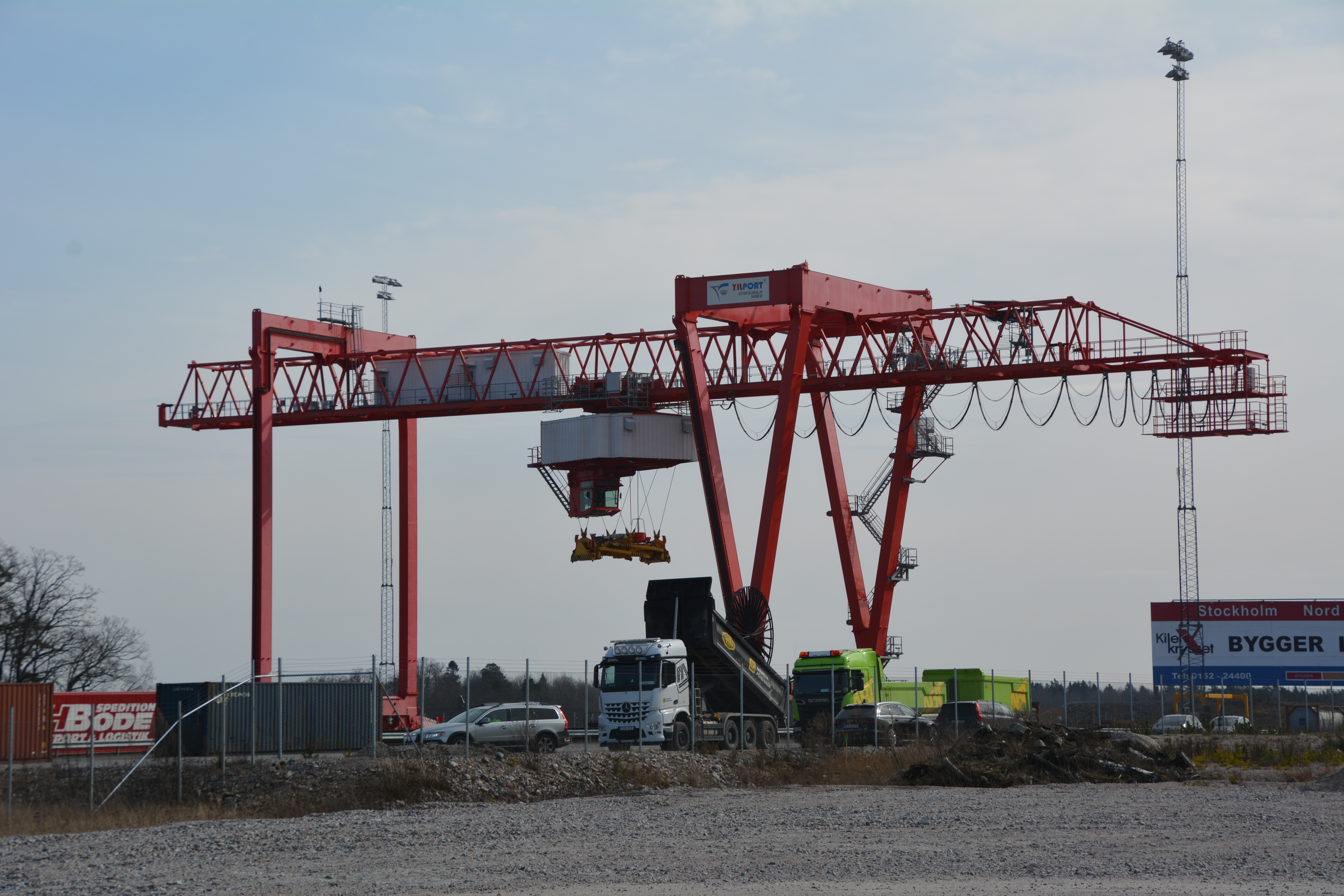 Combi Terminal Stockholm Nord, southern Gantry crane